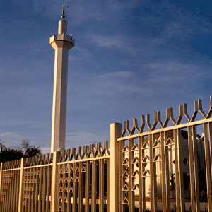 Исламский центр в Бразилиа